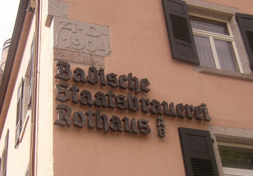 Badische Staatsbrauerei Rothaus AG (brewery) in Rothaus, Black Forest